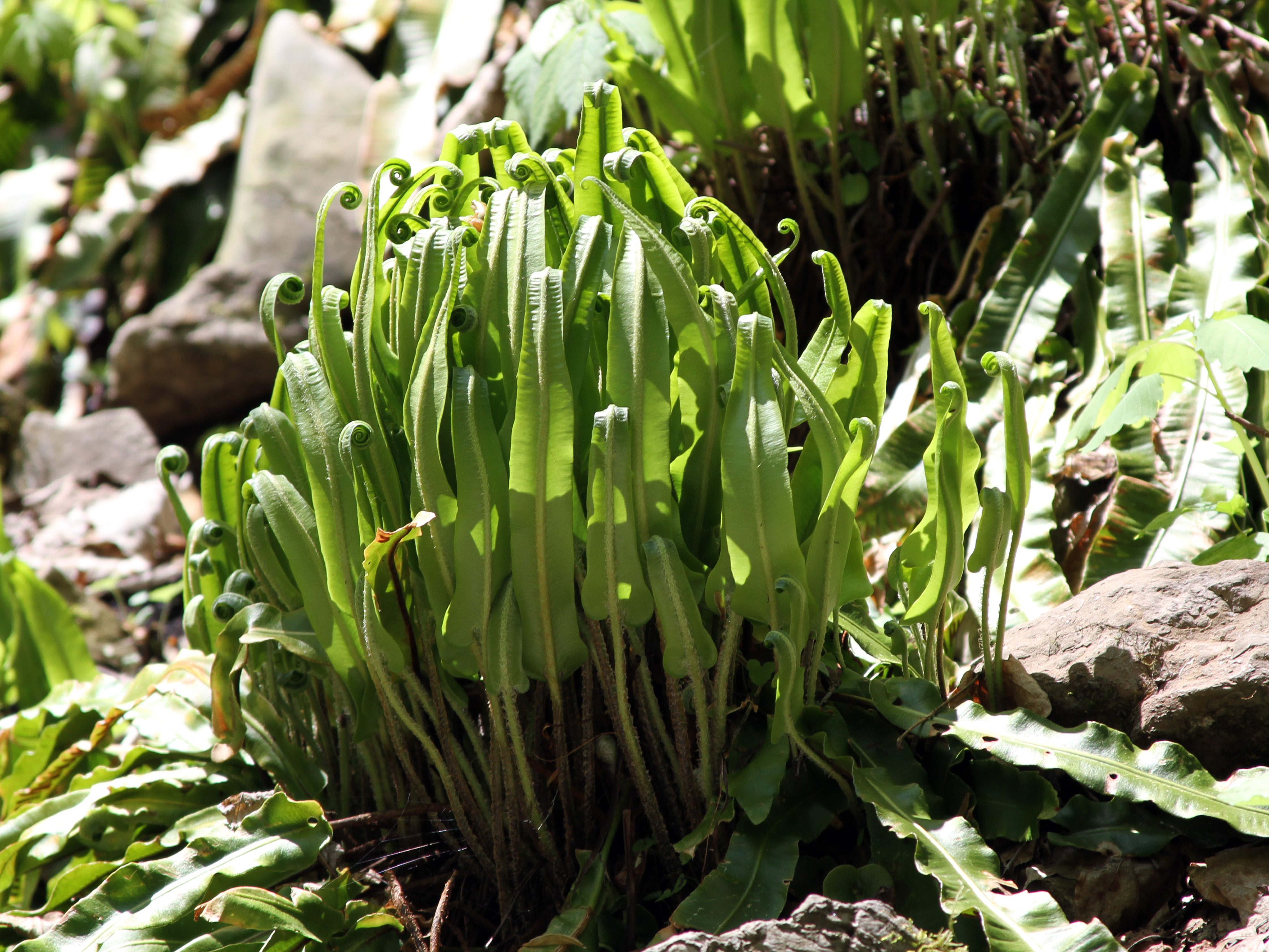 Asplenium scolopendrium var. americanum - Hart's-tongue fern. Photographed at Clark Reservation State Park, Onondaga County, New York